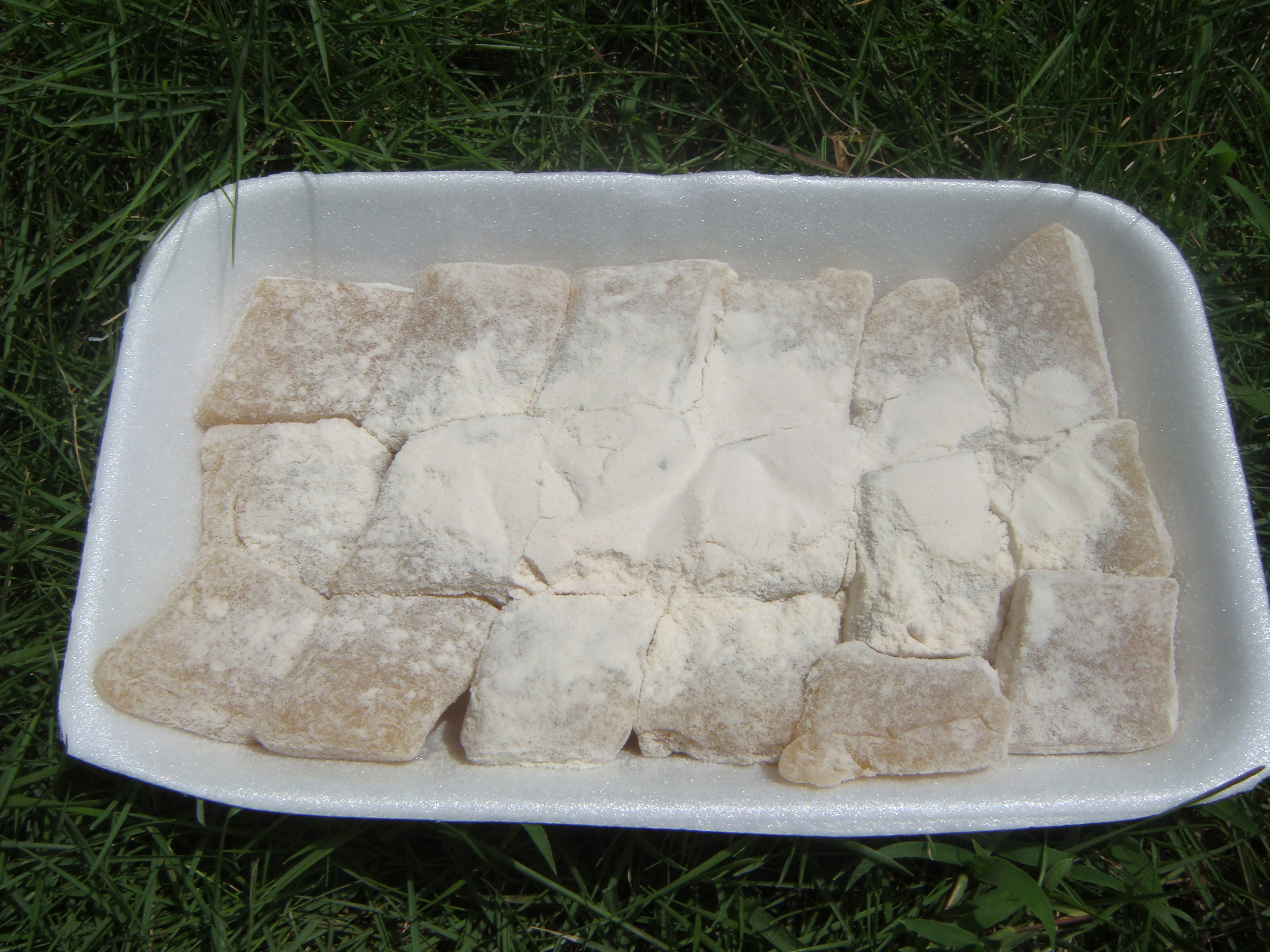 Espasol